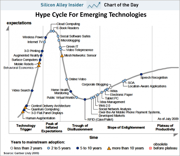 Gartner Hype Cycle for Emerging Technologies